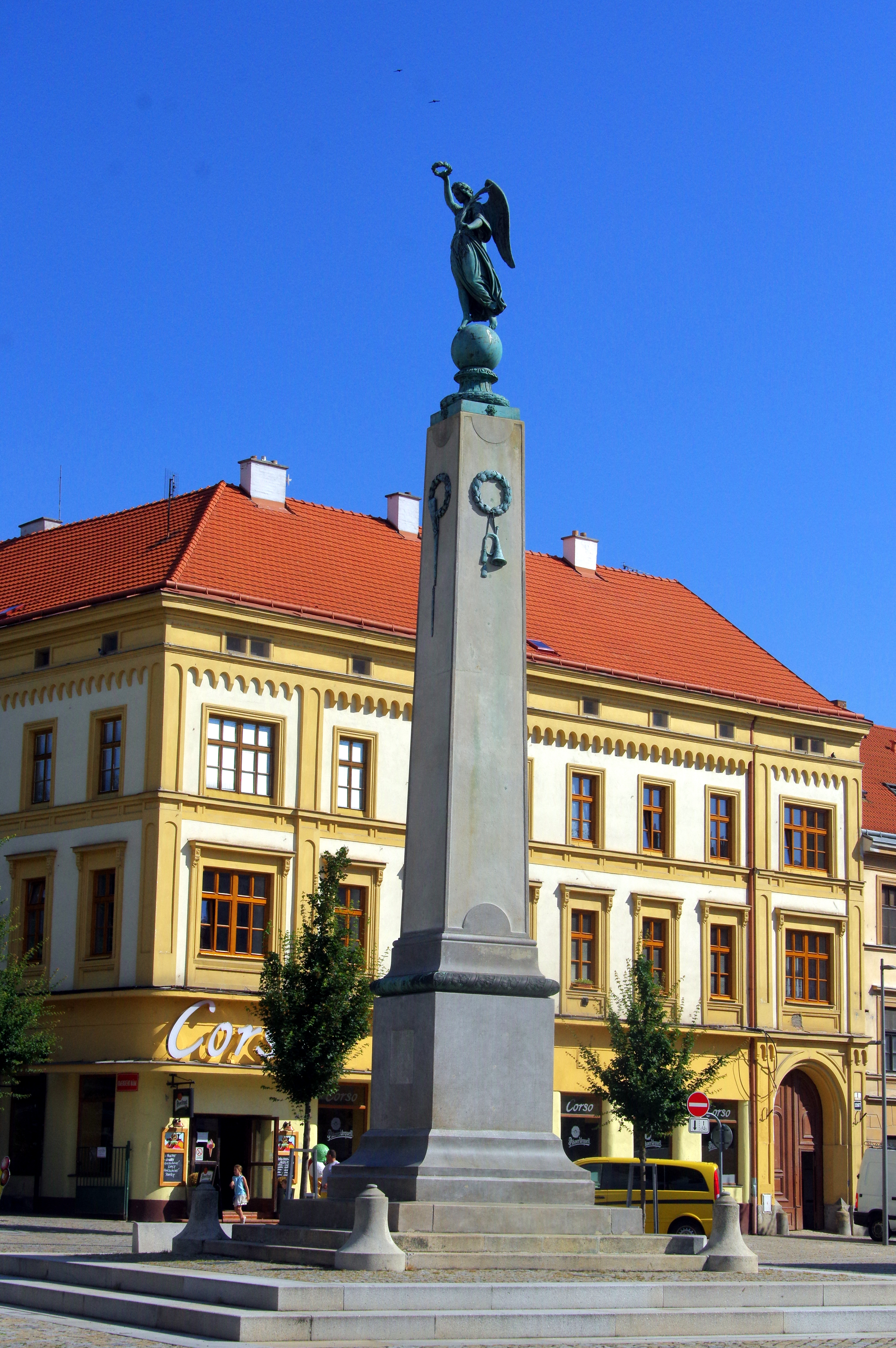 7.7.16 Znojmo